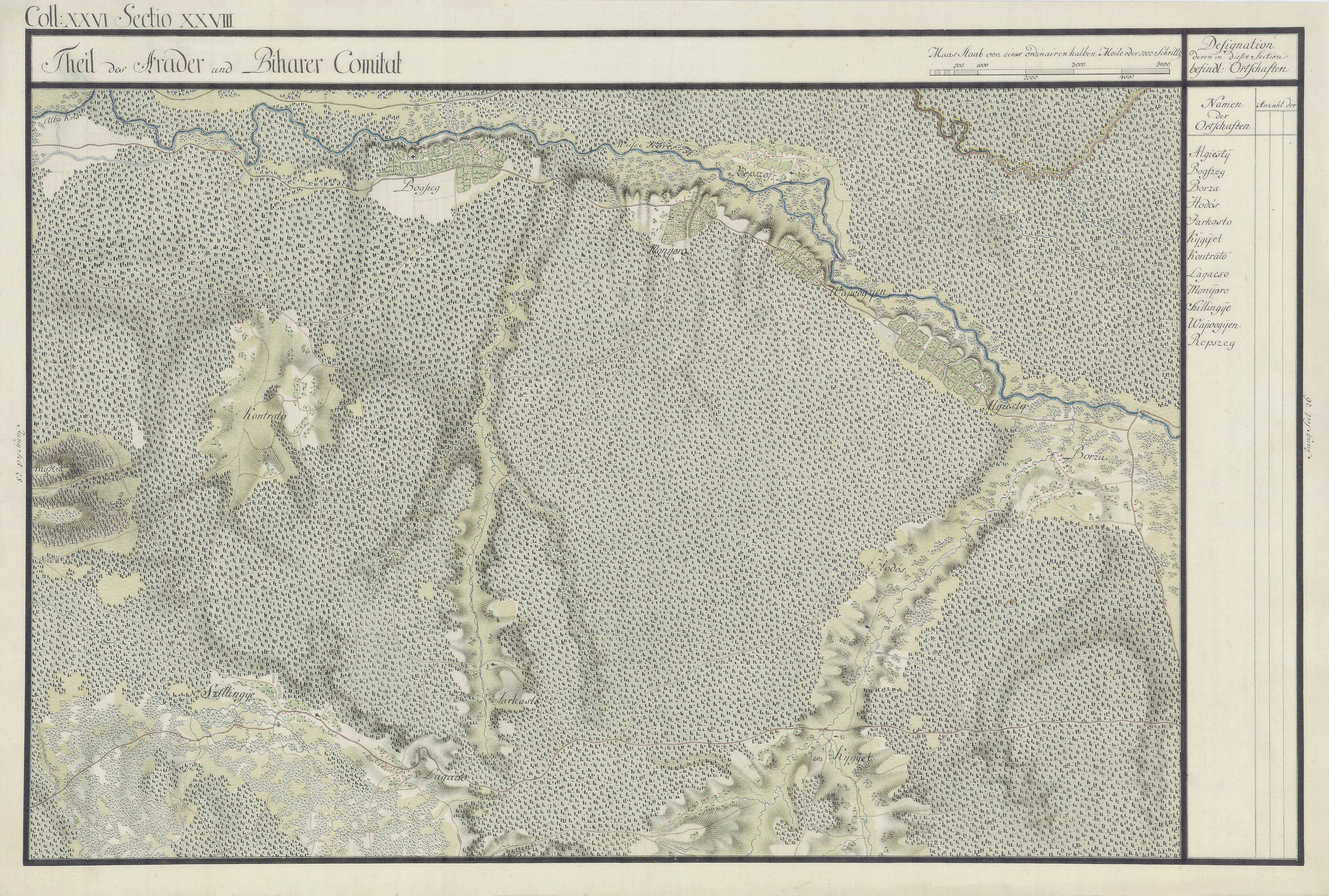 Arad County, 1782-85. Josephinische Landesaufnahme pg.26-28